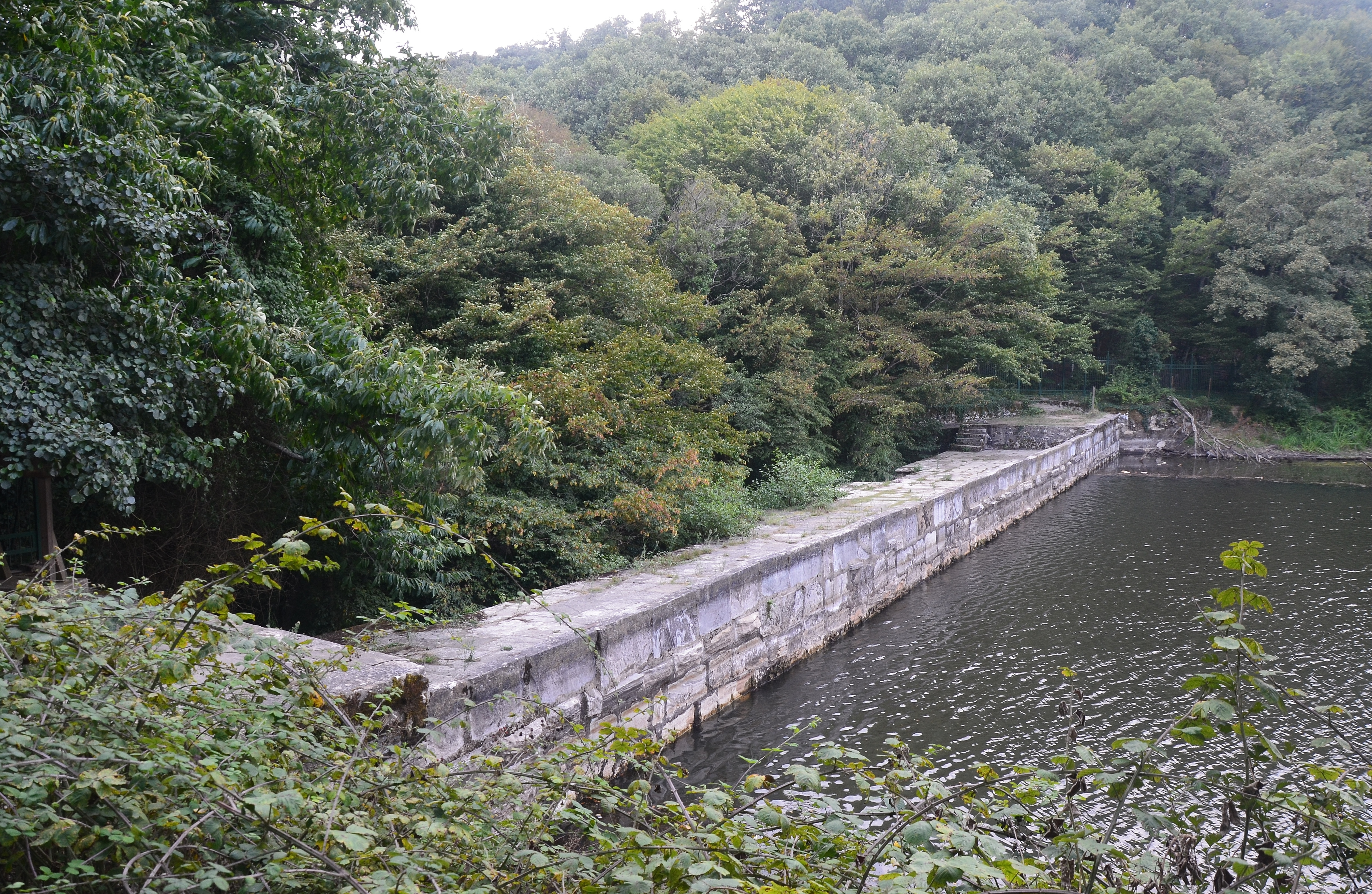 Dam (Turkish: Bent) of Kömürcübent Park inside the Belgrad Forest in Sarıyer